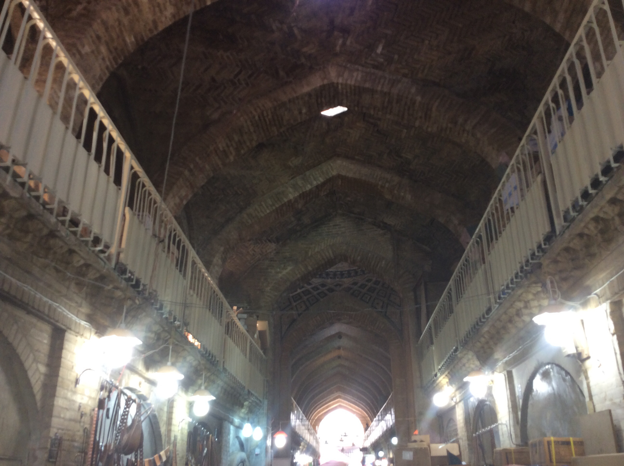 Souq Al Sarai - Old Bazar in Baghdad - Rasafa